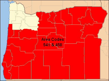 Map shows Oregon Area Codes 541 and 458